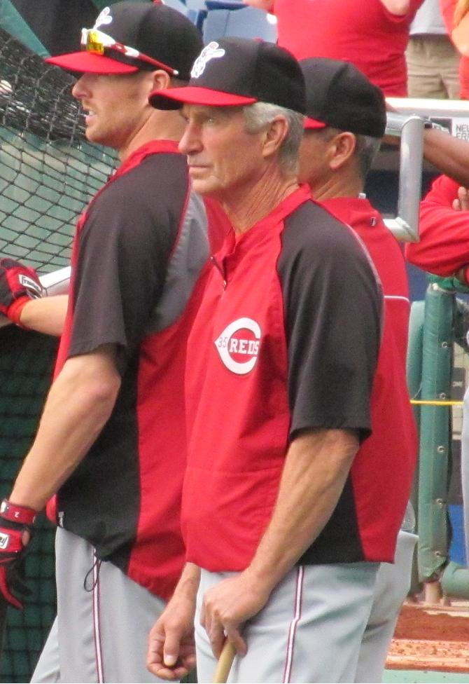 Chris Speier in Philadelphia PA on 2013 05 18